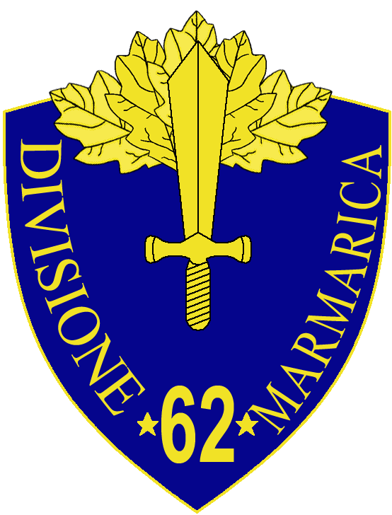 62a Divisione Fanteria Marmarica insignia, Regio Esercito, Italy, WWII